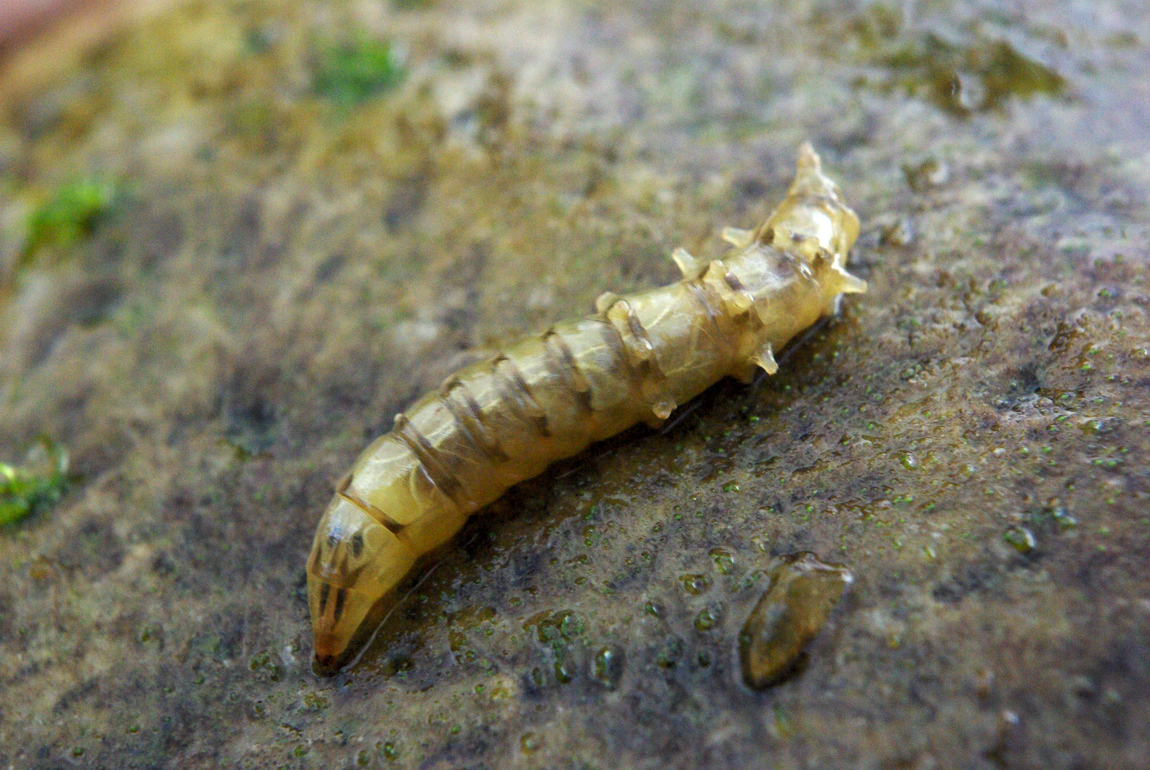 Freshwater macroinvertebrate